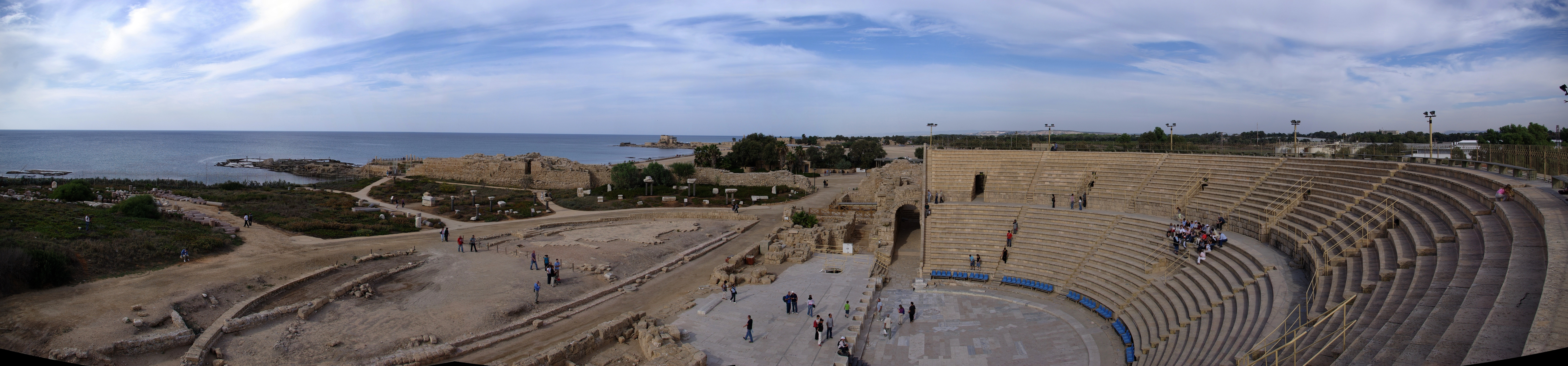 Caesarea maritima, stitched from 4 pictures